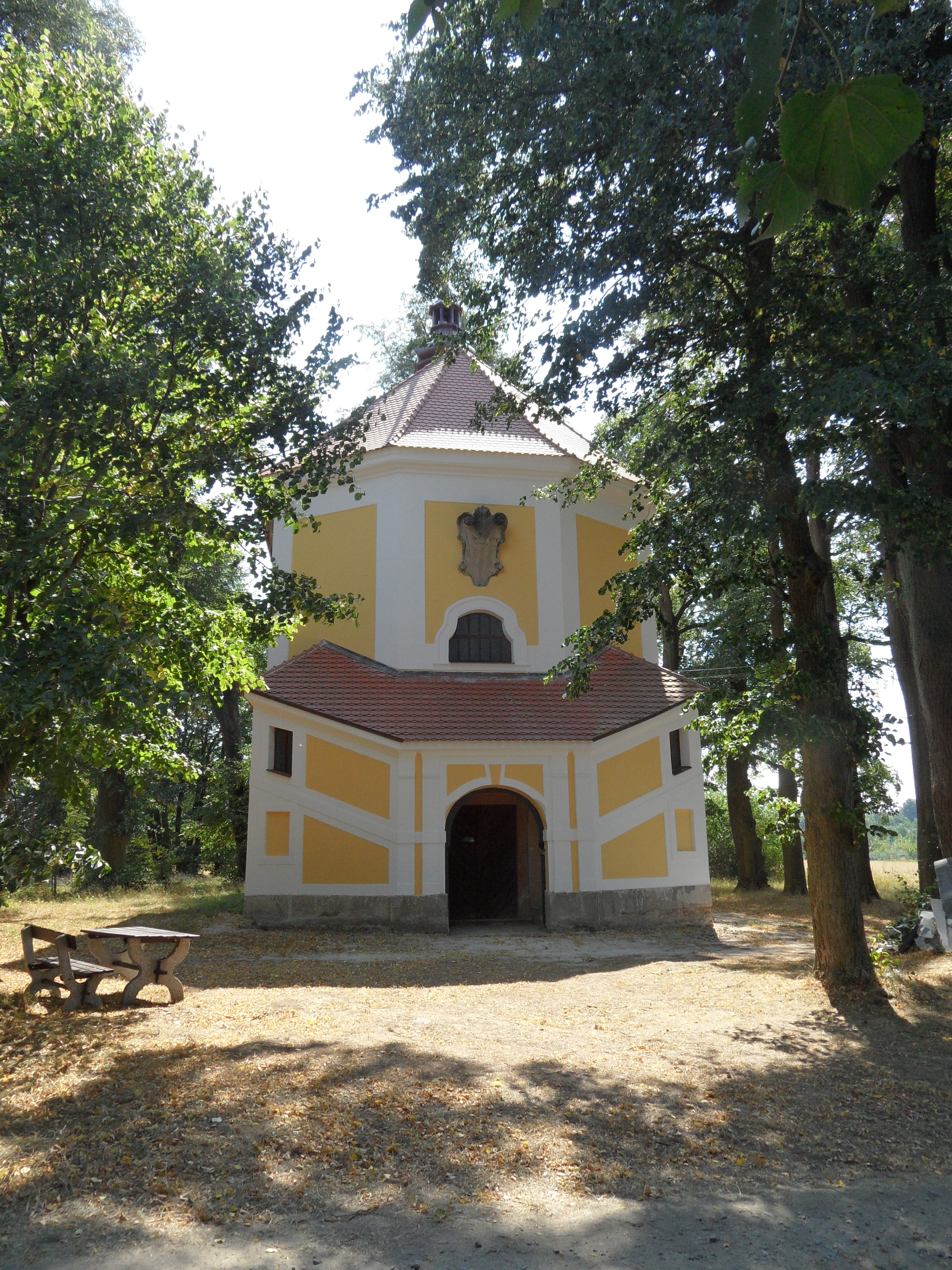 Úhrov A. Chaple of Saint Anthony of Padua after Reconstruction, Face View. Havlíčkův Brod District, the Czech Republic.